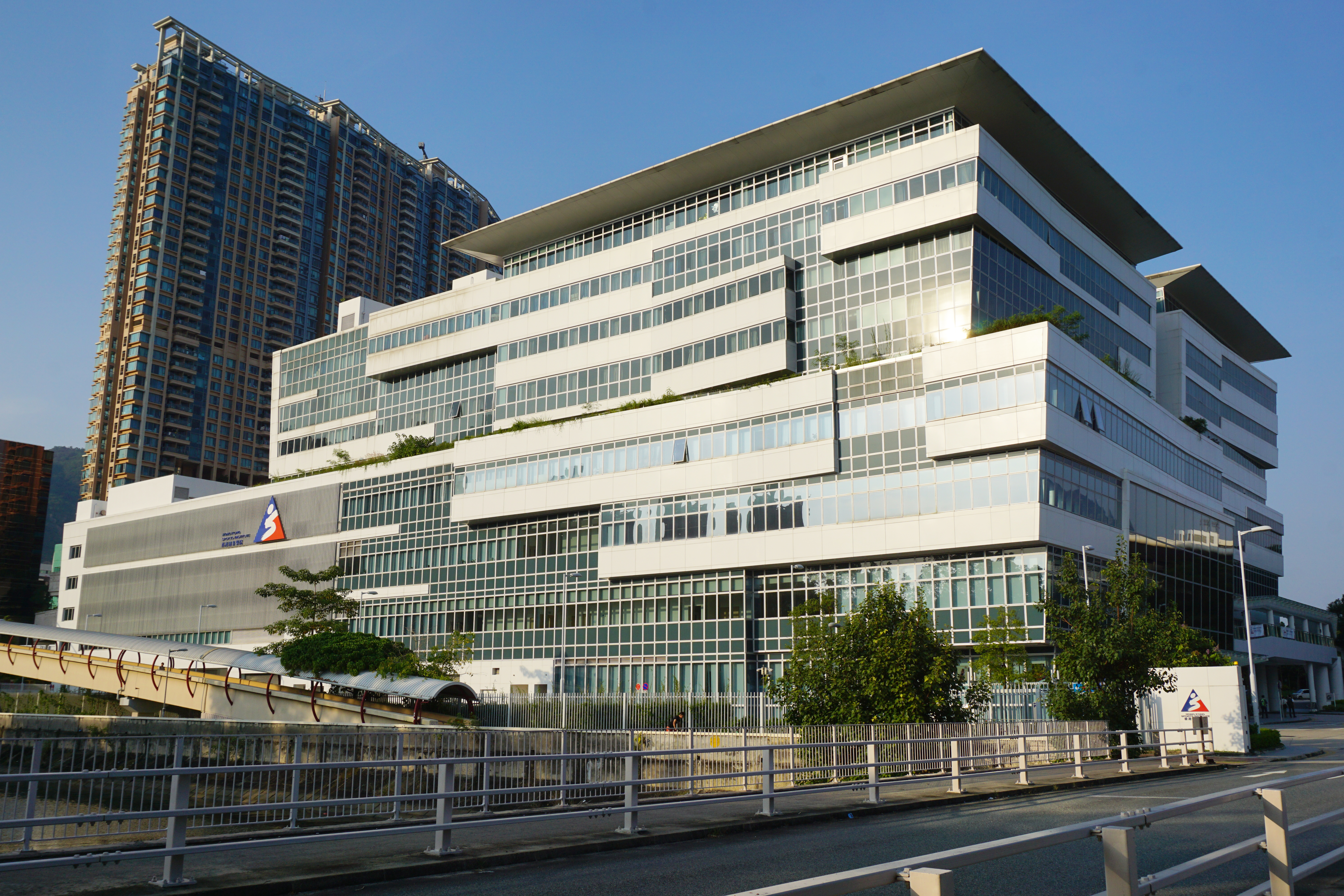 Hong Kong Sports Institute in Fo Tan, Hong Kong.